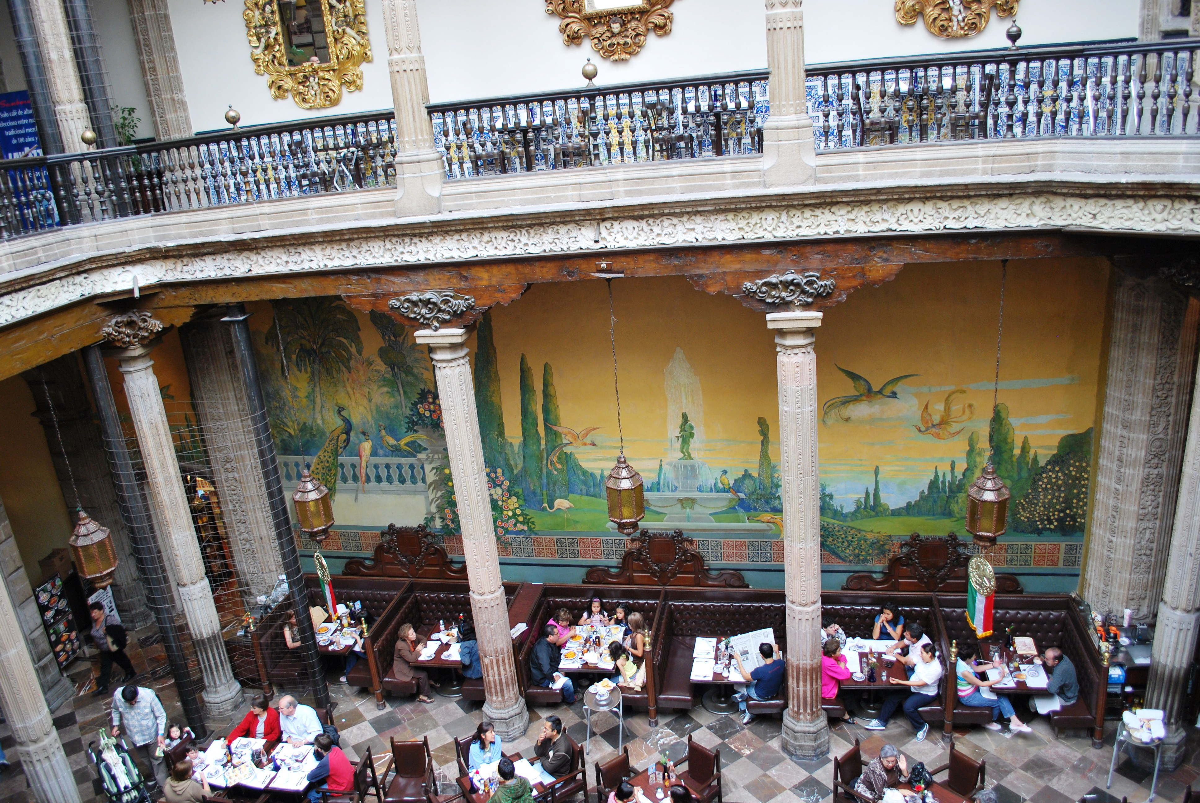 Peacock mural by Romanian painter Pacologue at the Casa de Azulejos in the historic center of Mexico City